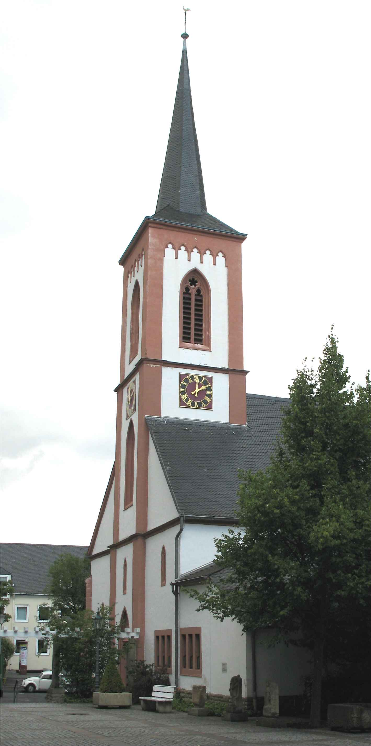 Liebfrauen Church in Bitburg, Germany.